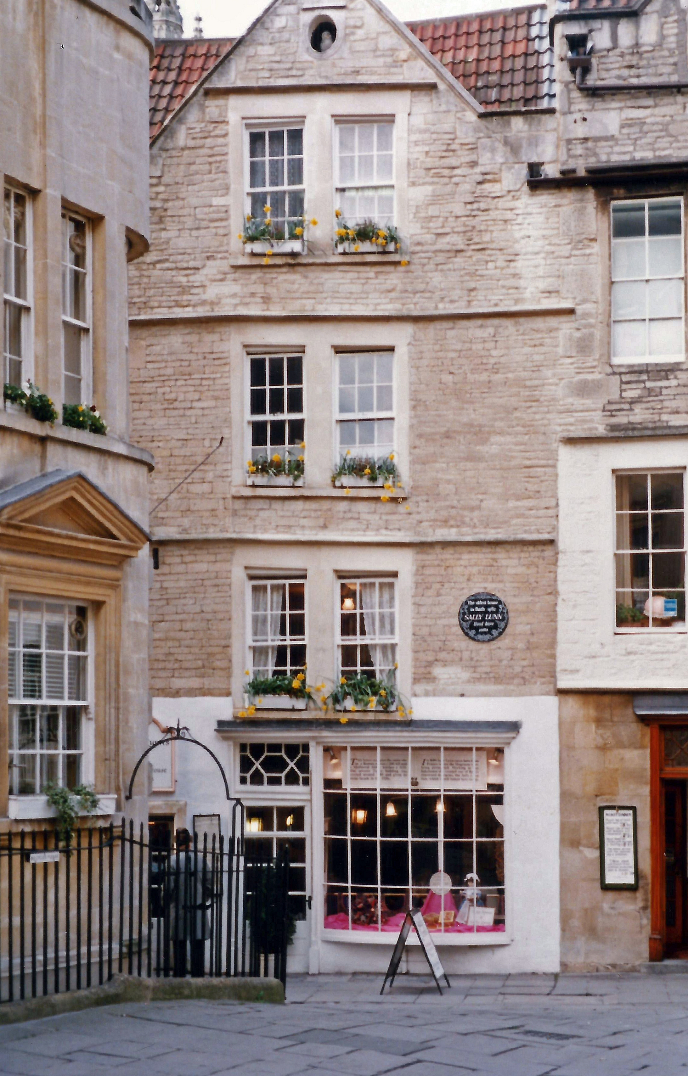 Sally Lunn's House (supposedly), North Parade Passage, Bath, England